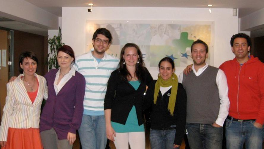 EPSA Executive 2010/2011 (missing Jurij Obreza)